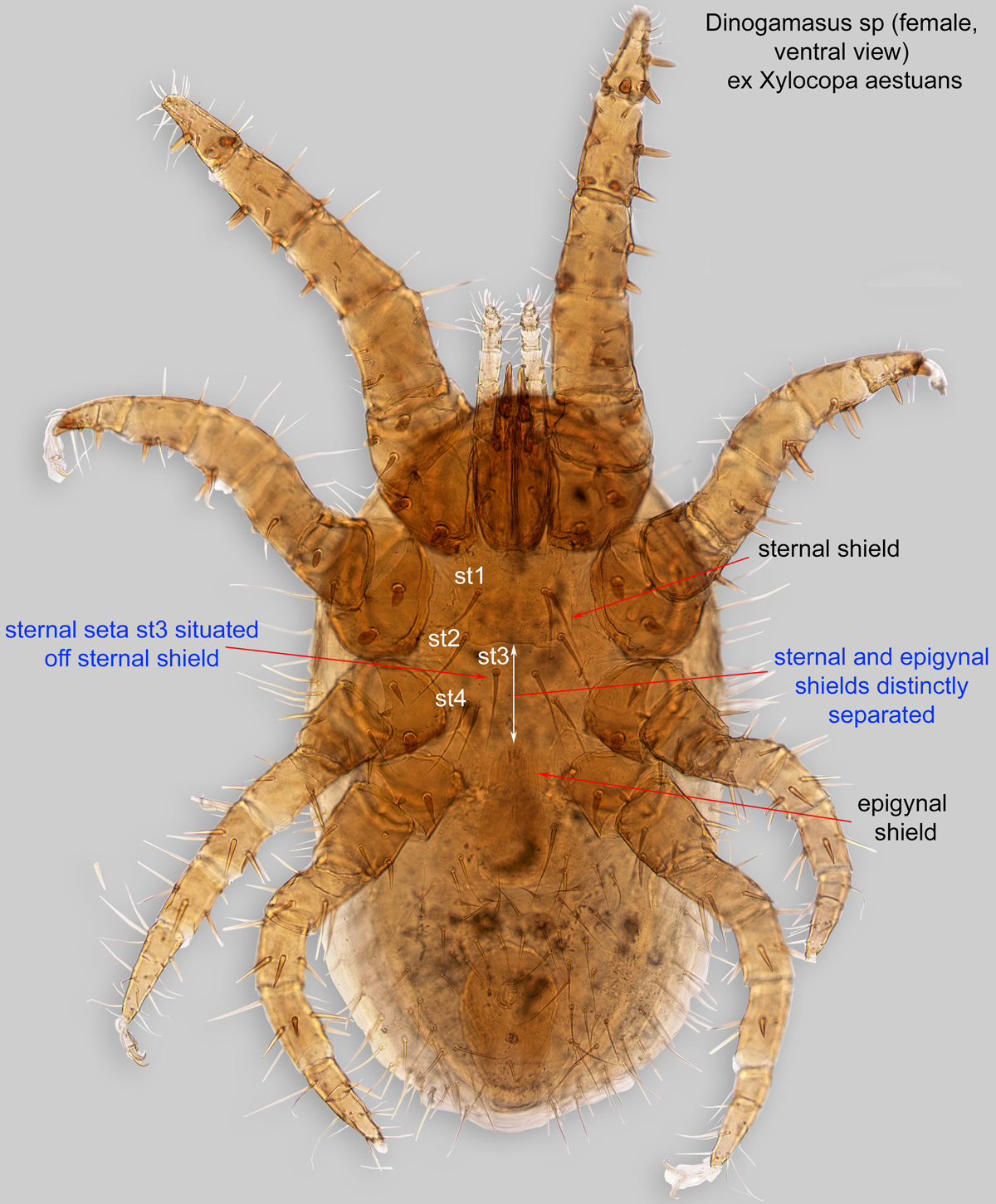 Bee mites